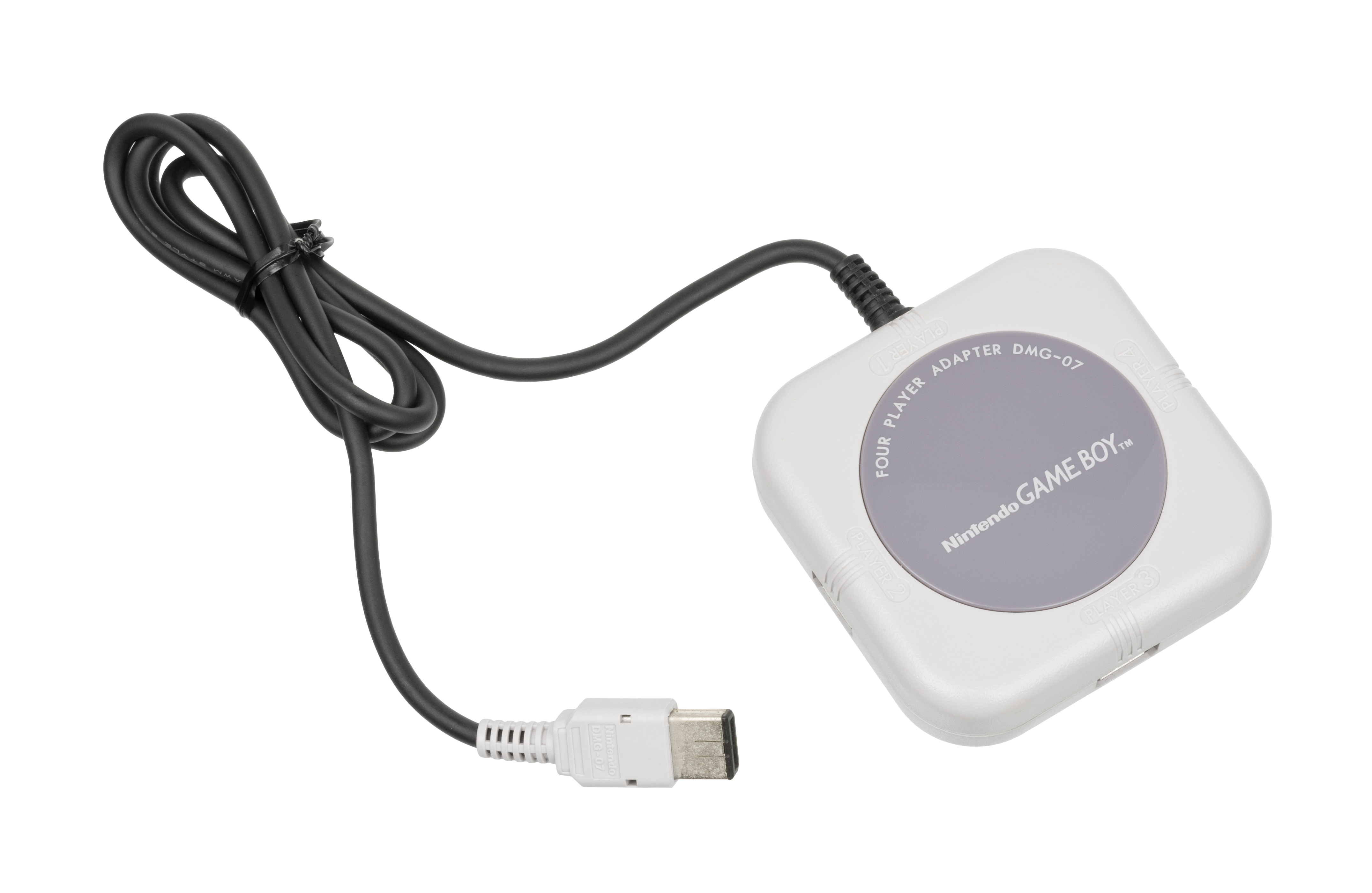 A four player adapter (DMG-07) for the Nintendo Game Boy handheld gaming console. It was used for only a handful of titles, as most games only supported two-player multiplayer.